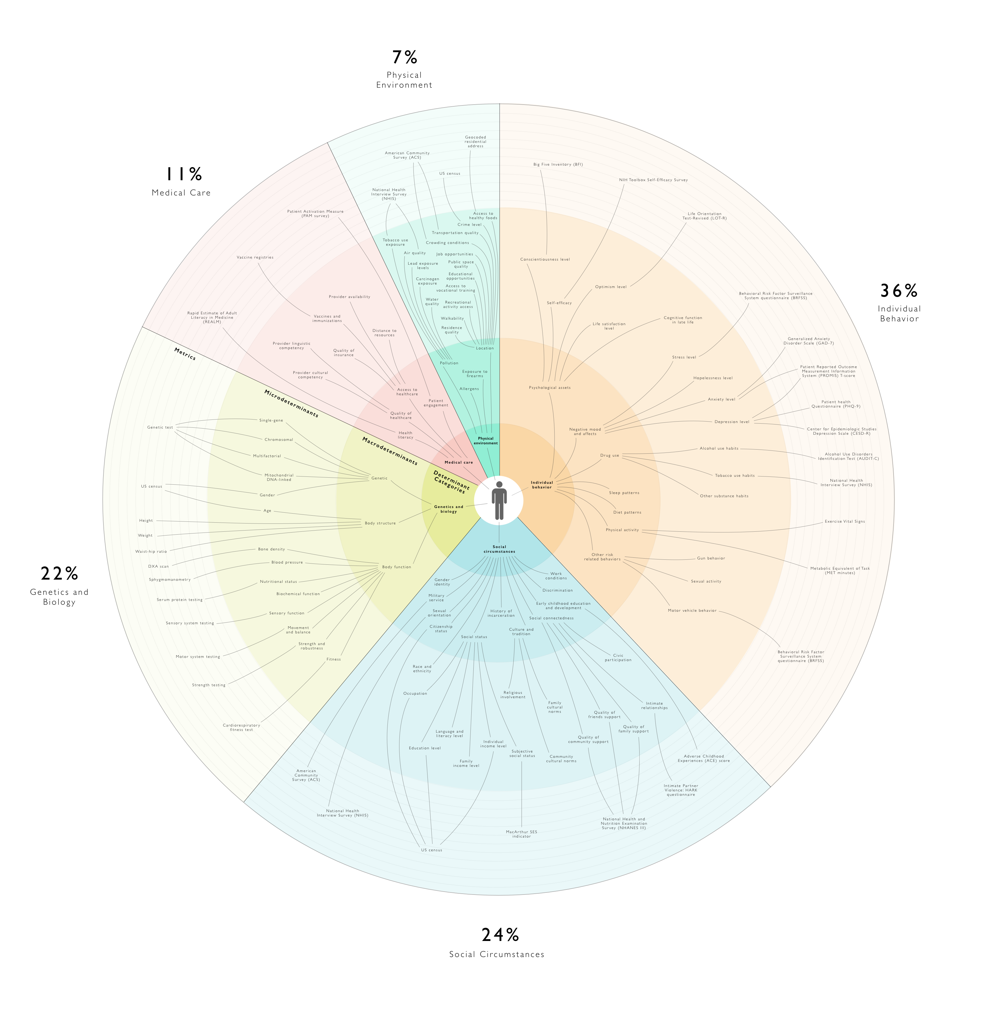 This is a detailed picture of the social determinants of health from the micro to macro determinants, validated by public health analysts, healthcare academics, and healthIT professionals. This is an open source visualization, licensed under Creative Commons Attribution v3. The source is from and the references, methodology, and vizualization can be accessed on